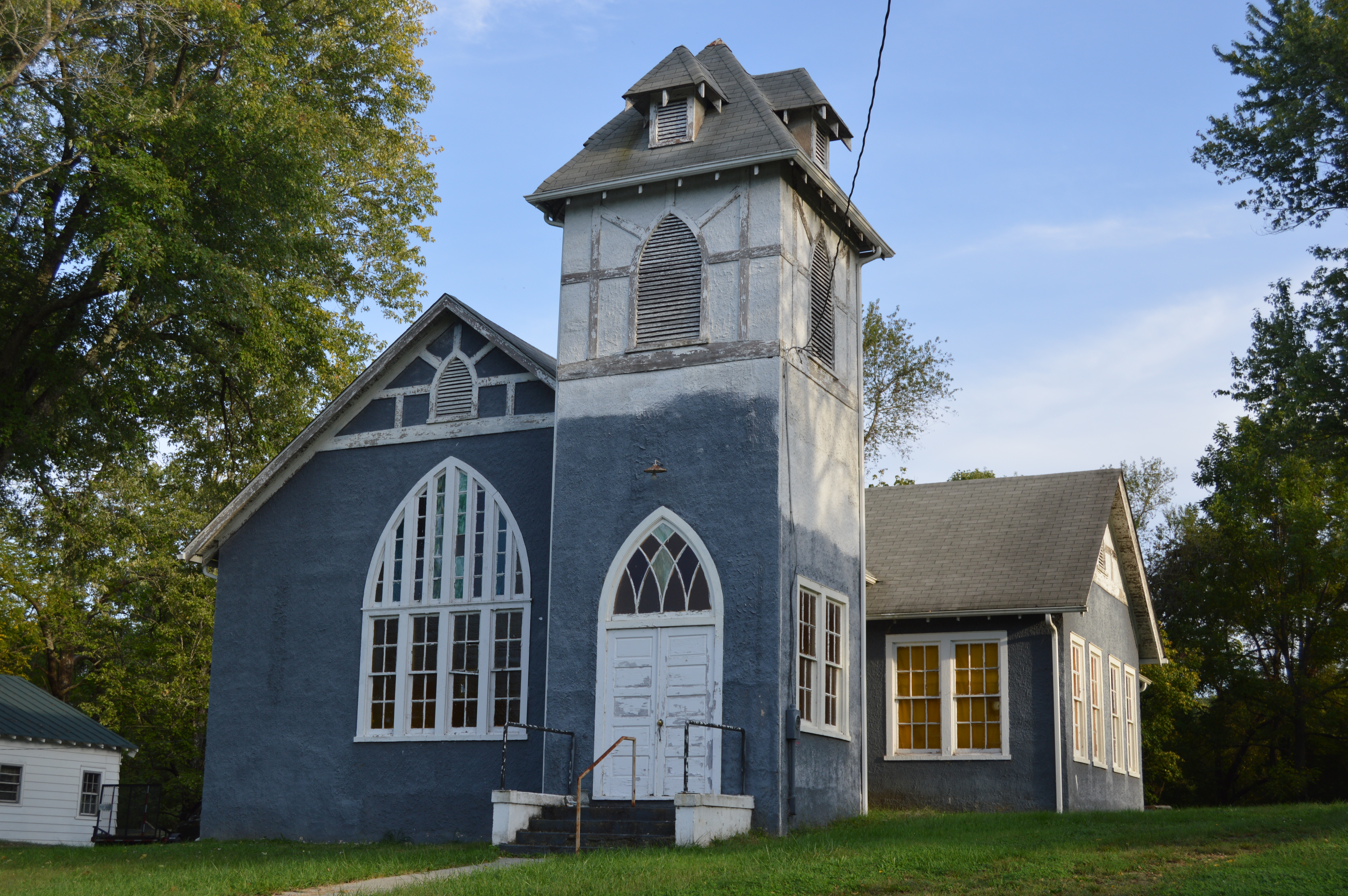 Front and western side of the former Big Island United Methodist Church, located on Plumtree Lane at Big Island in Bedford County, Virginia, United States.